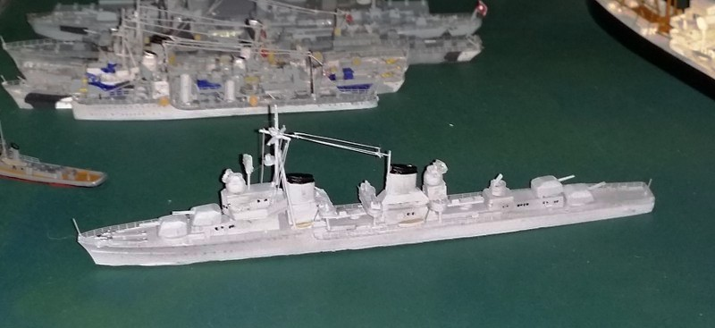 Model of the German Zerstörer Class 1945 - which was designed but not built any more. The Resin kit is from Bird Models. Some more pics of the same model are on